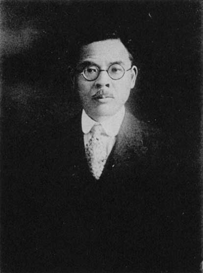 Takaji Komatsubara, 1st director of the Himeji Higher School.